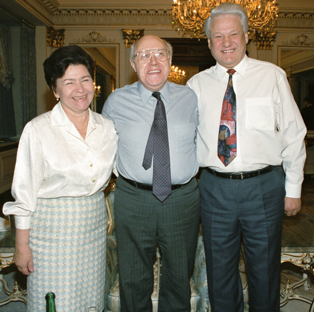 “Official visit of the Russian President Boris Yeltsin to Korea”. Left to right: Naina Yeltsin, Mstislav Rostropovich, Boris Yeltsin.